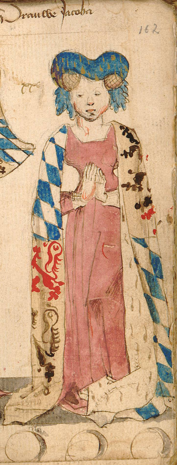 Jacqueline, Countess of Hainaut